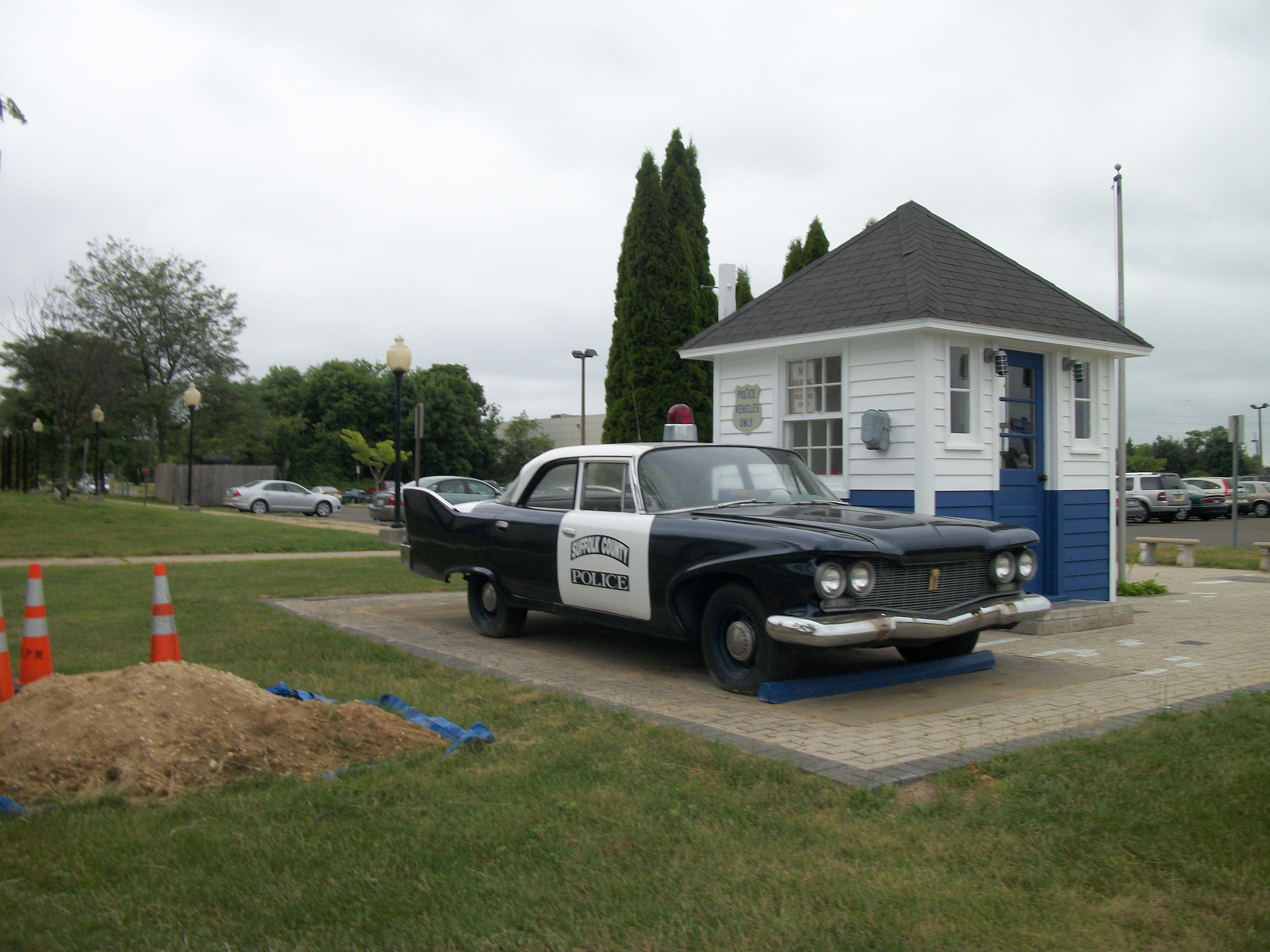 A 1960 Plymouth Police Special owned by the Suffolk County Police Department on display in the original SCPD colors at the Suffolk County Police headquarters/museum in Yaphank, New York. I used to think this was a Plymouth Fury, but considering the fact that it's a police car, it seems unlikely. This car has been stolen on numerous occasions, so I'm amazed they still have it on display.